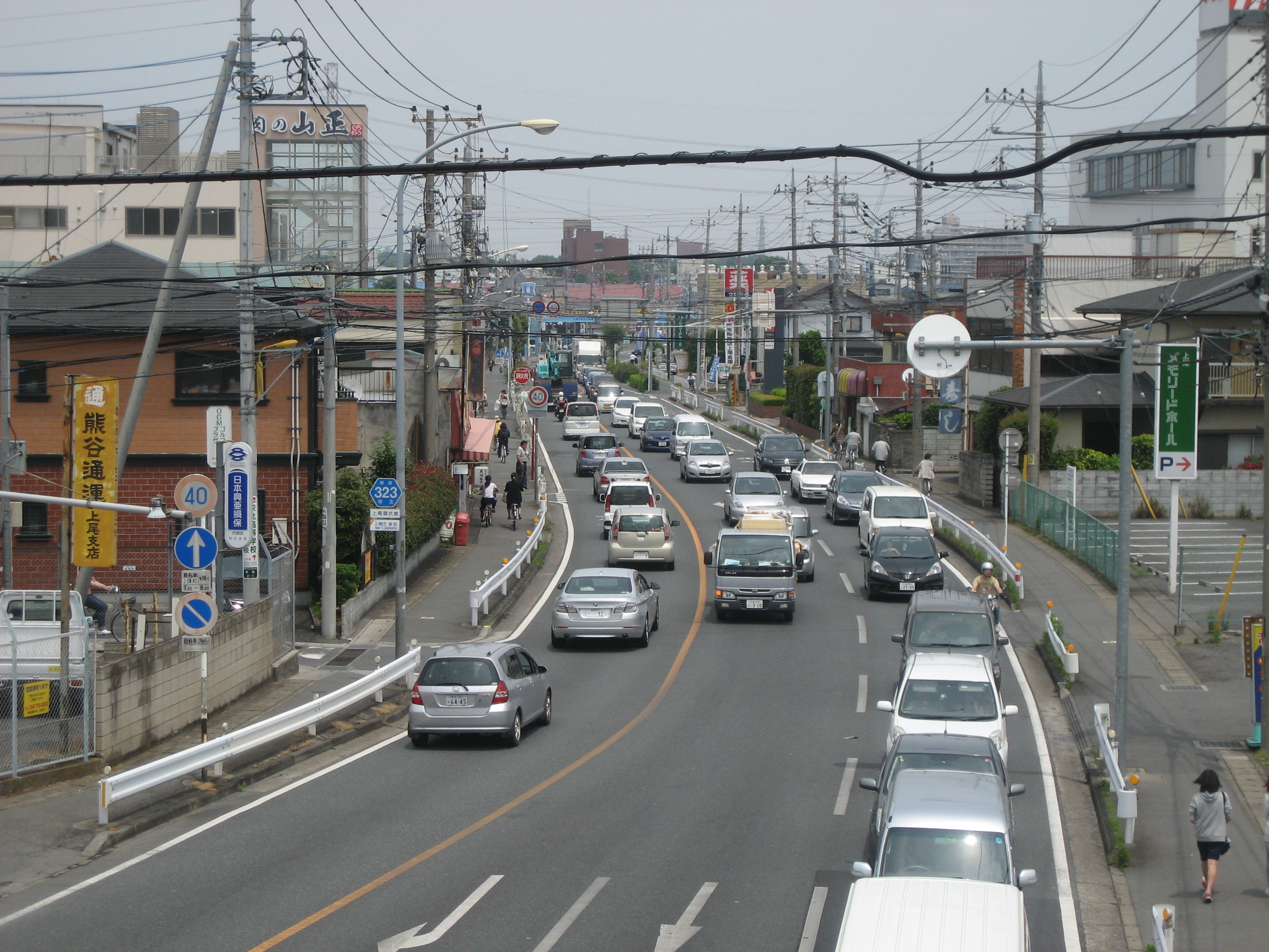 The Saitama Prefectural Road Route 323 near the Atago Intersection in Azumacho, Ageo City